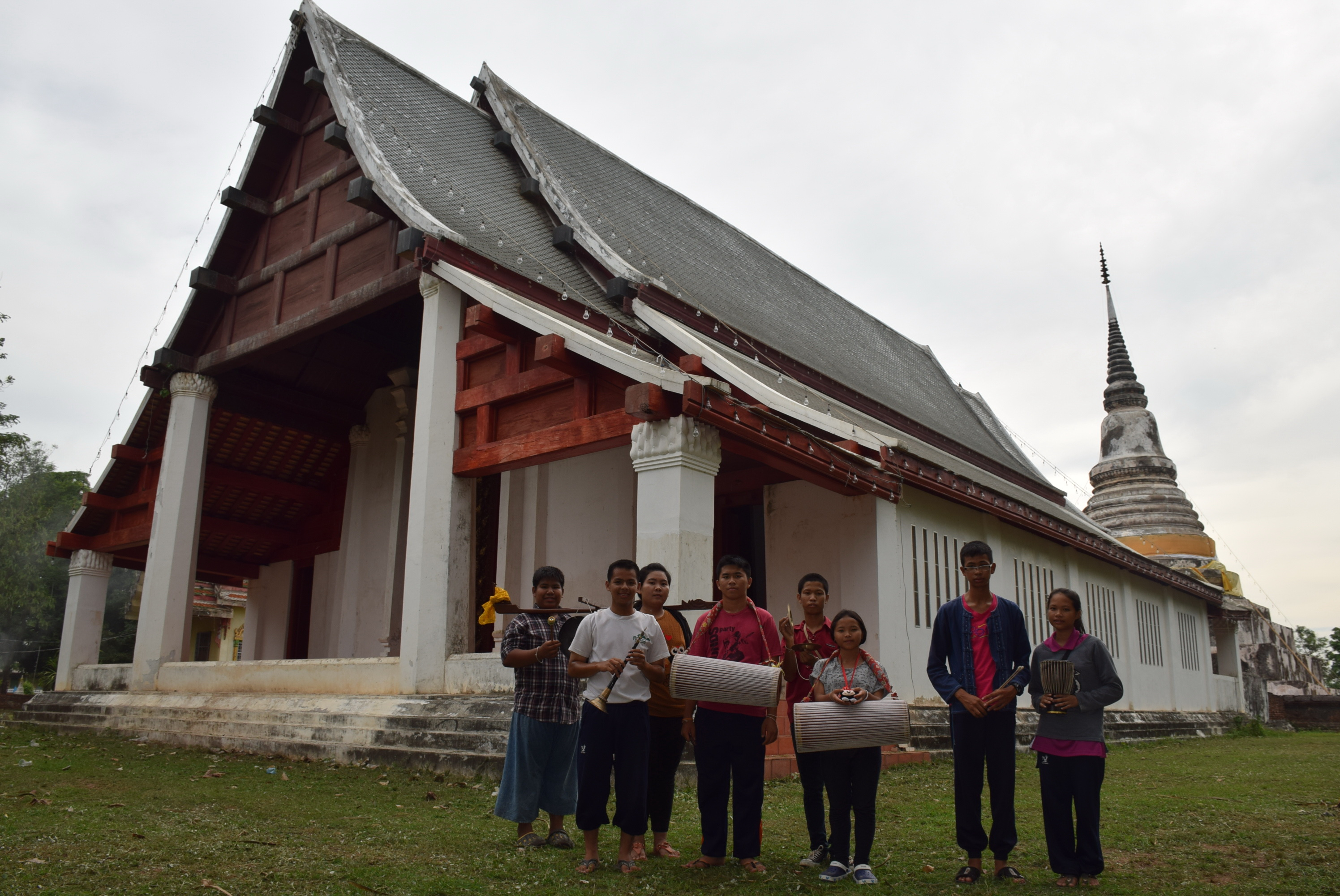 MR.PRACHOM VONGPINIT (1943-) : THE LAST OF MANGKALA TRADITIONAL FOLK PROCESSION BAND IN NORTH OF THAILAND (NORTH UTTARADIT PROVINCE) . at Wat Kungtapao Local Museum, Ban Khung Taphao, Khung Taphao subdistrict, Mueang Uttaradit, Uttaradit Province, Thailand.) on April 30, 2015. Date2015SourceOwn workAuthor ผู้สร้างสรรค์ผลงาน/ส่งข้อมูลเก็บในคลังข้อมูลเสรีวิกิมีเดียคอมมอนส์ - เทวประภาส มากคล้าย Permission (Reusing this file)